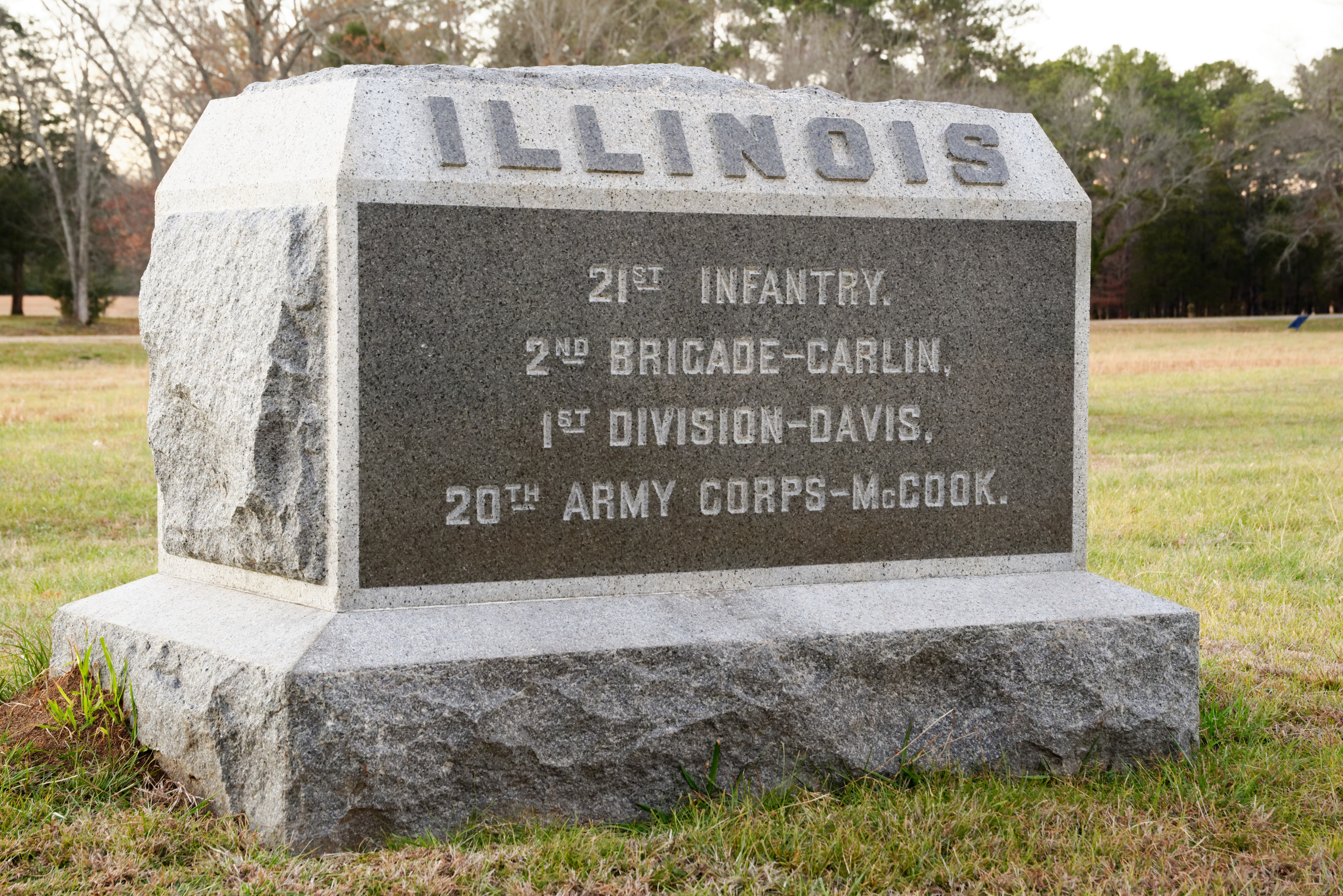 Viniard Field monuments, Viniard Field, Chickamauga Battlefield